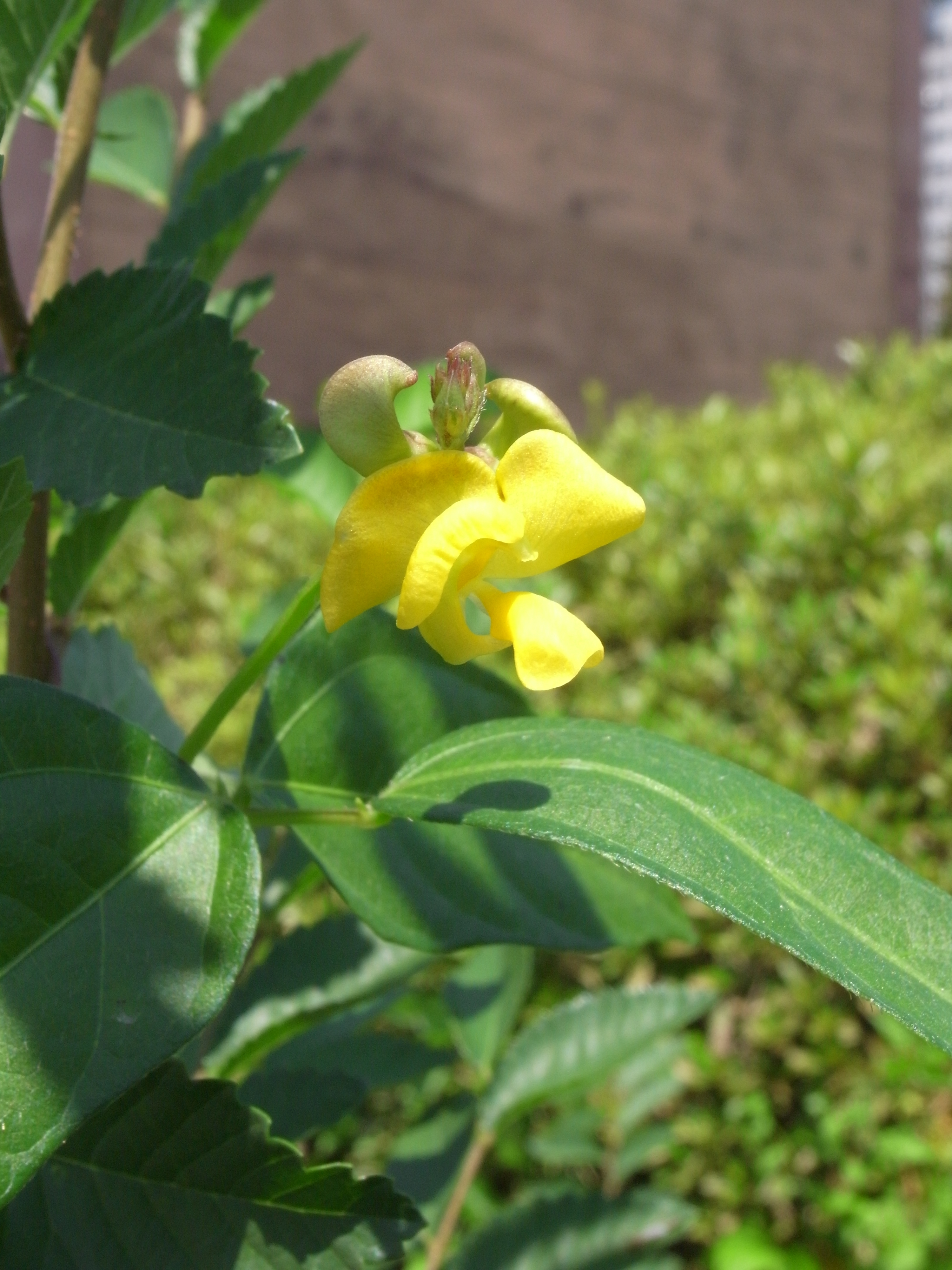 Vigna angularis var. nipponensis